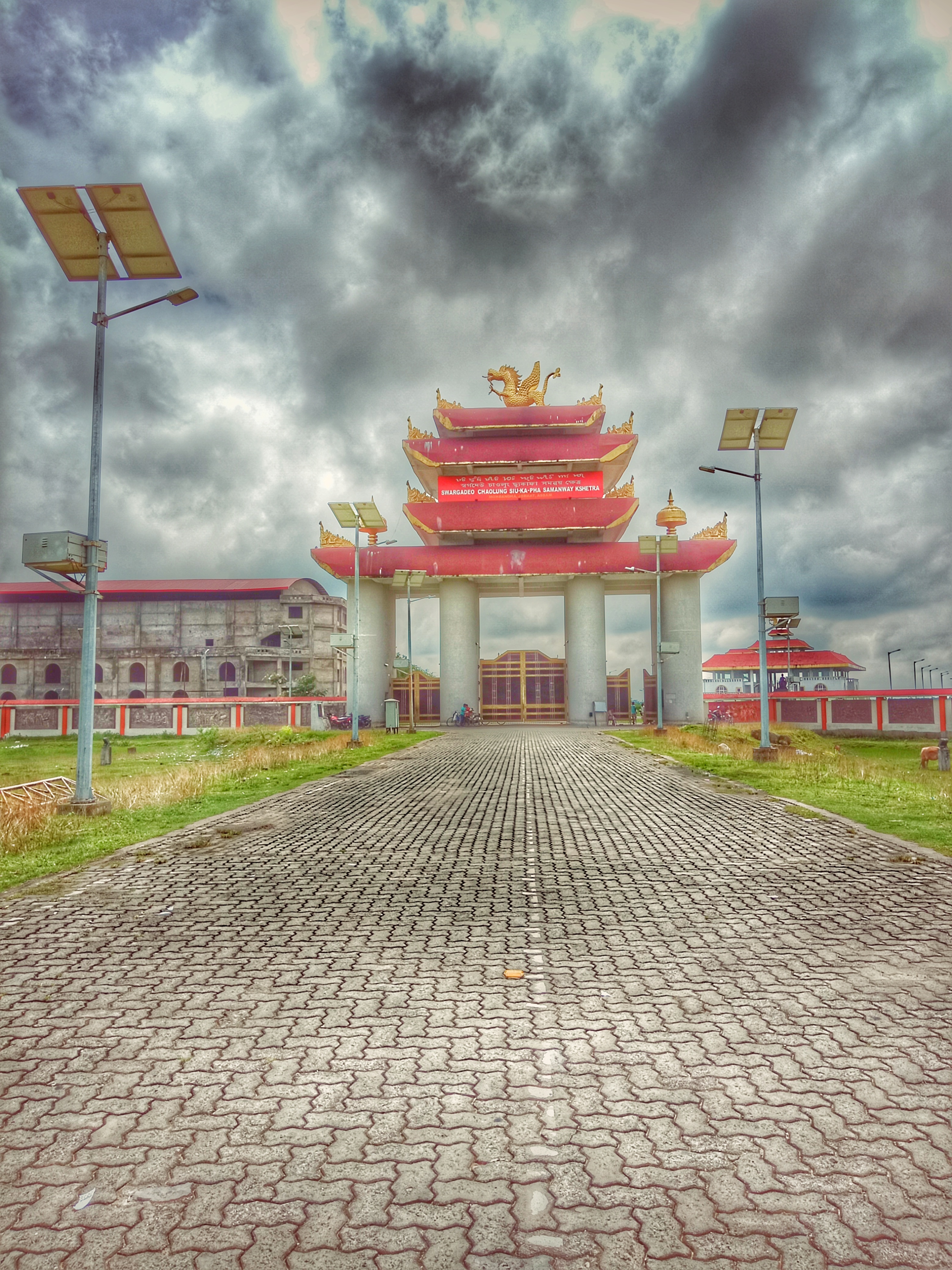 Gate of Kingdom